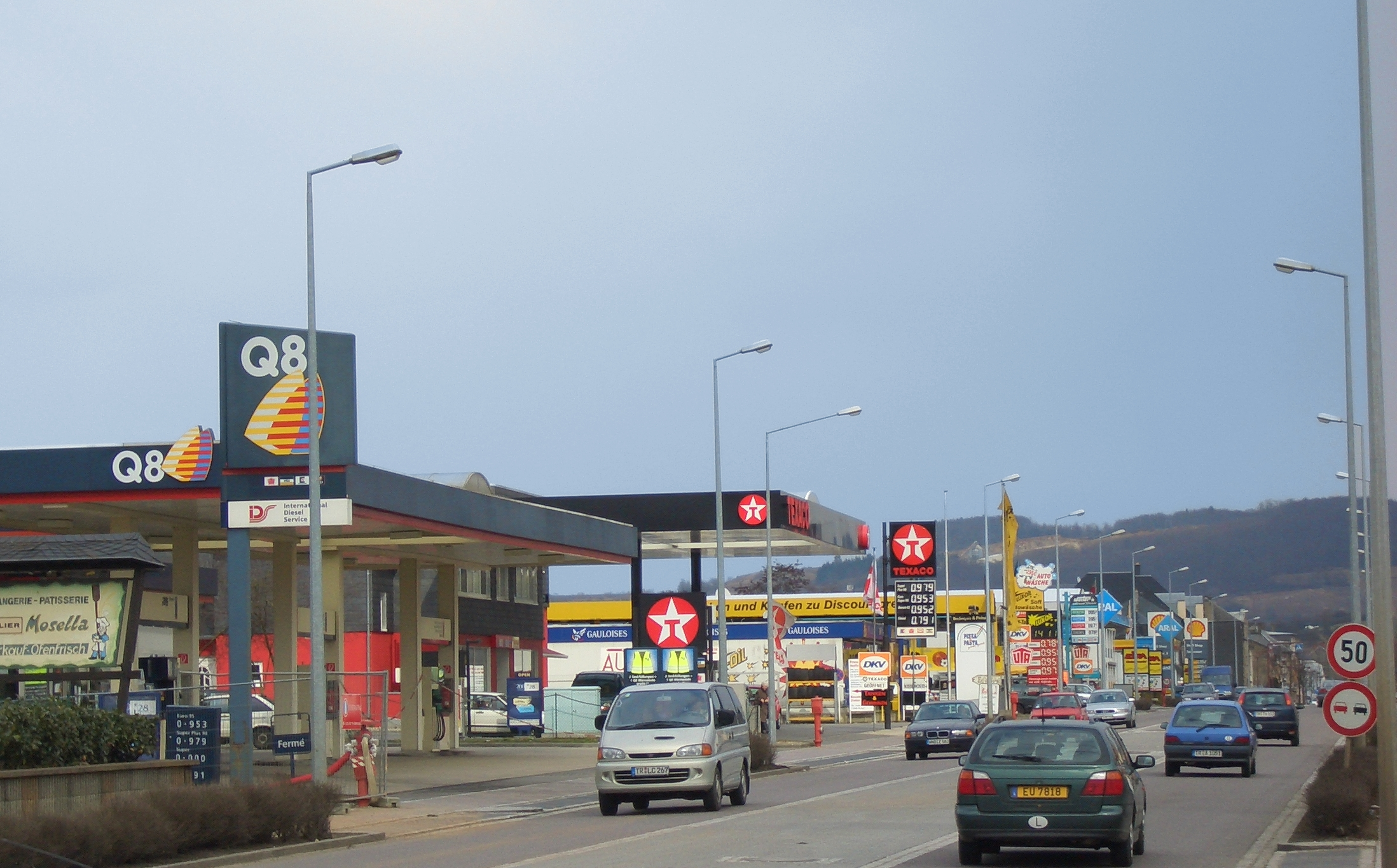 Mertert, filling stations between Mertert and Wasserbillig